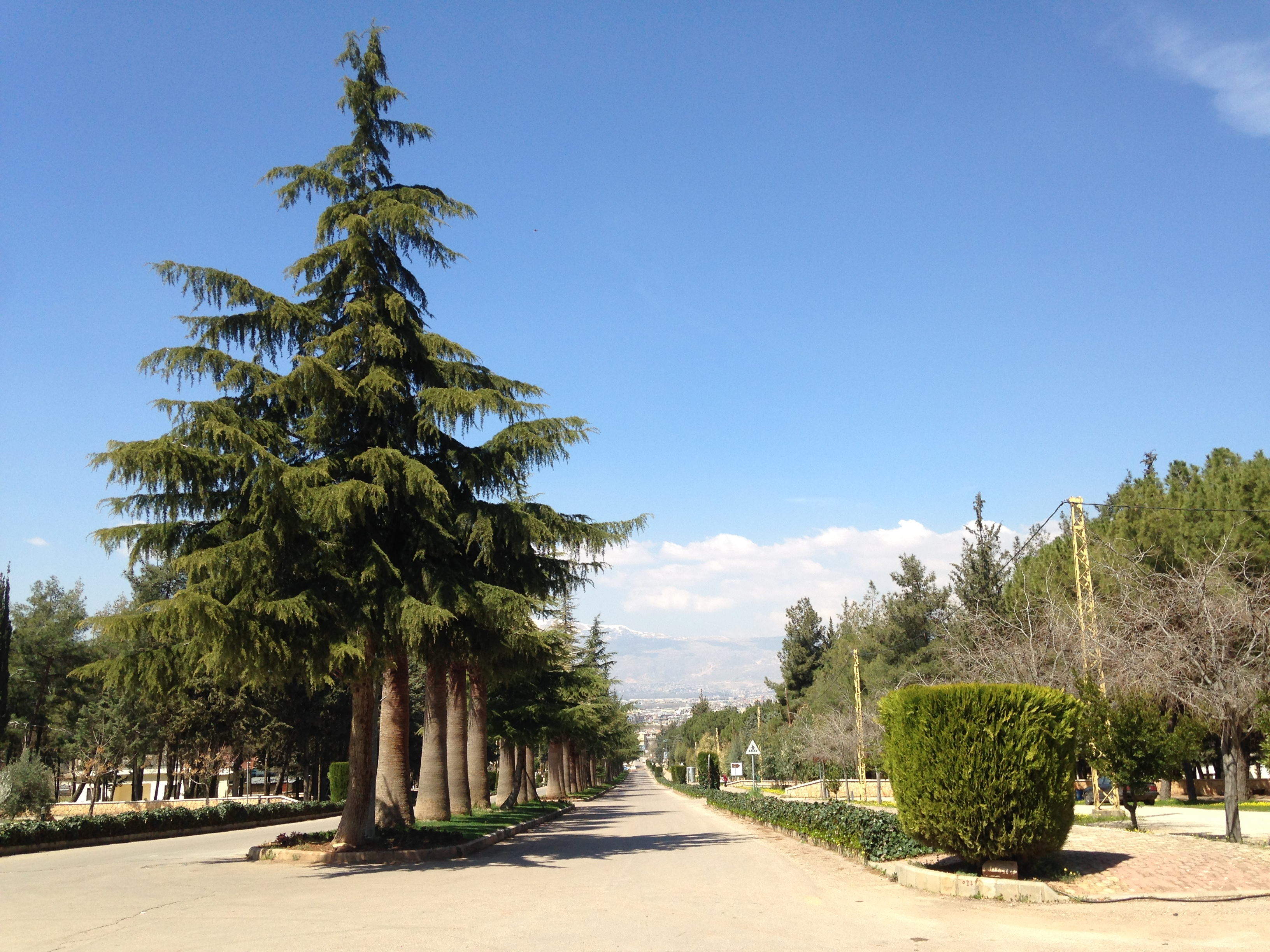 A street in the Armenien-populated village of Anjar, Lebanon.